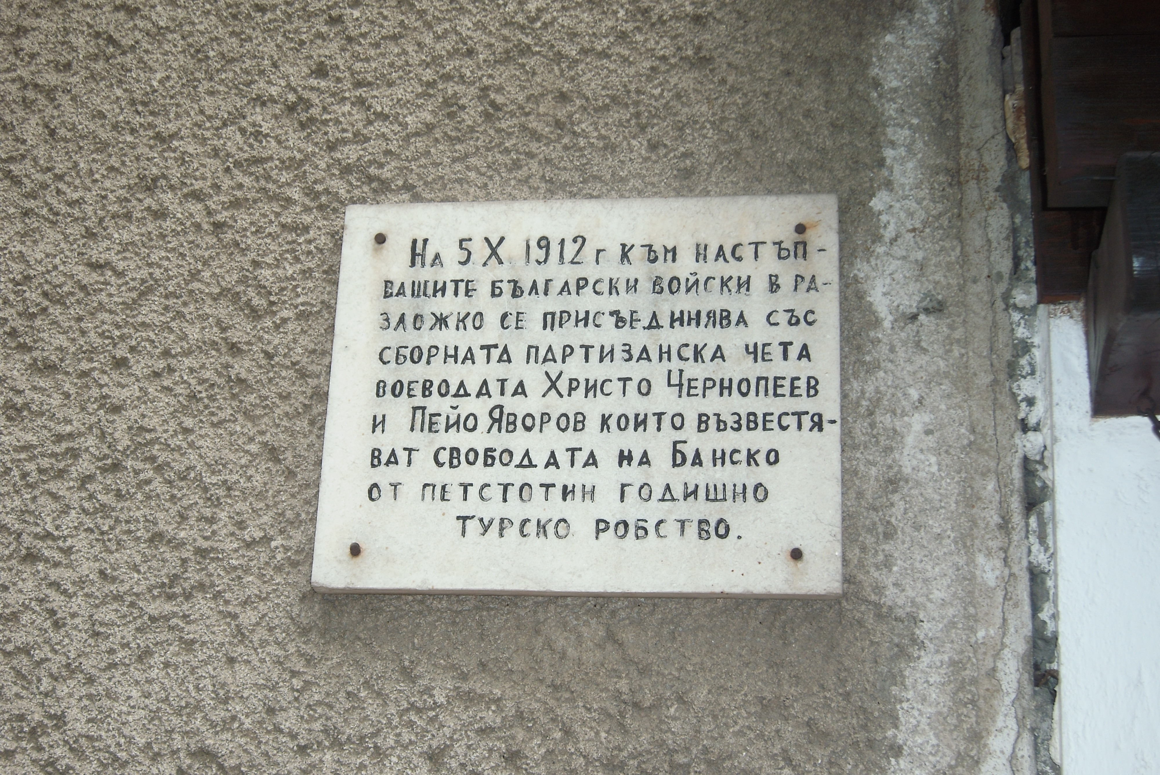 Memorial plaque in Bansko, Bulgaria, commemorating the liberation of the city by Hristo Chernopeev and Peyo Yavorov in the Balkan War of 1912